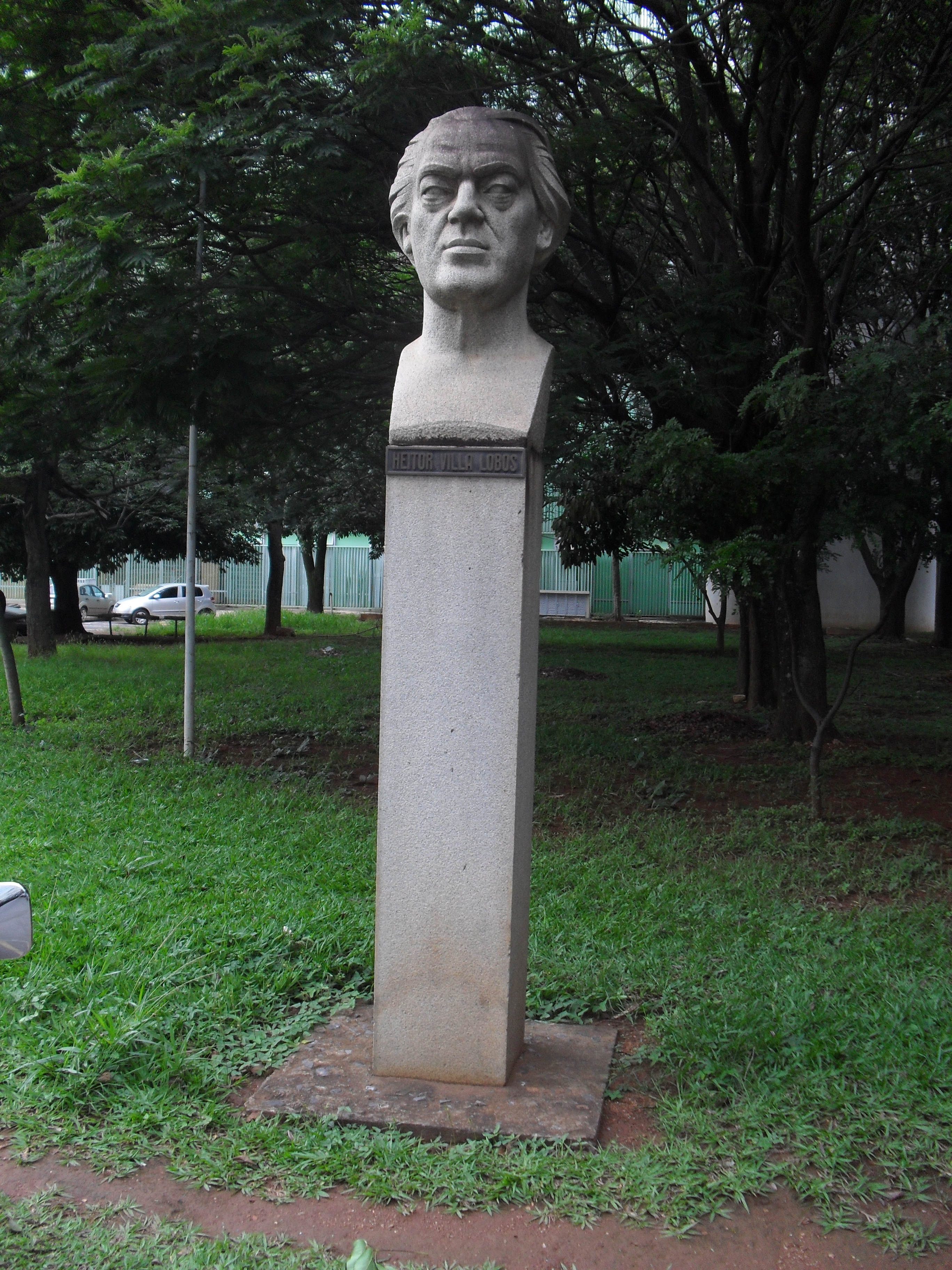 Bust of Heitor Viilla-Lobos in front of Ministry of Education in Brasília, Brazil